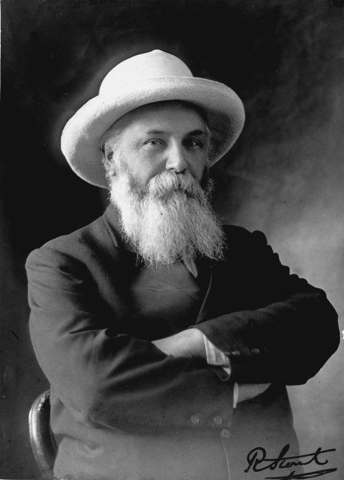 Robert Stout in ca 1919